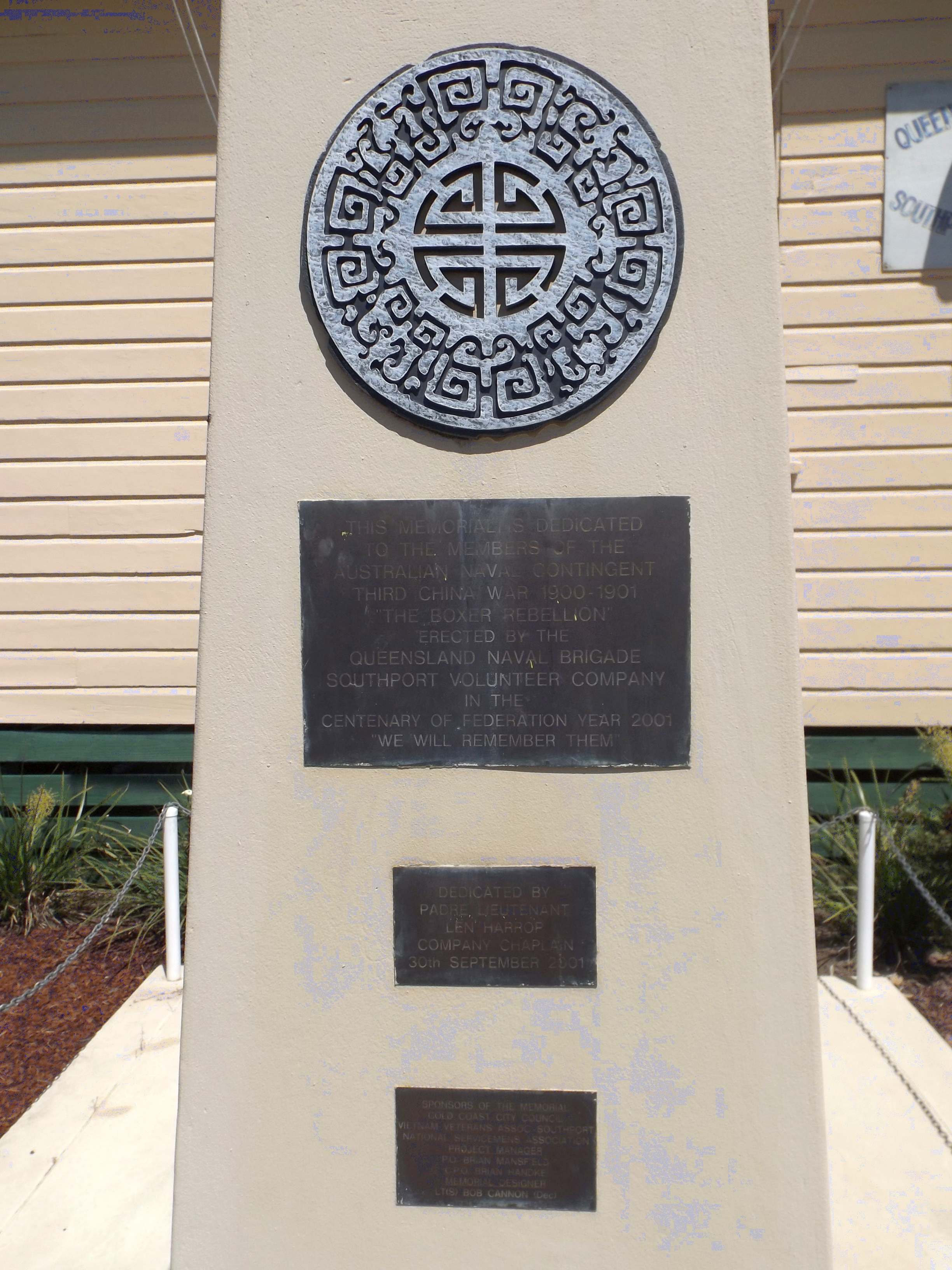 Photo of plaque at the Southport Drill Hall in Southport, Gold Coast City, Queensland, Australia.